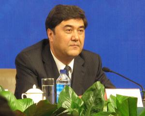 Depicted person: Nur Bekri – Chinese politician